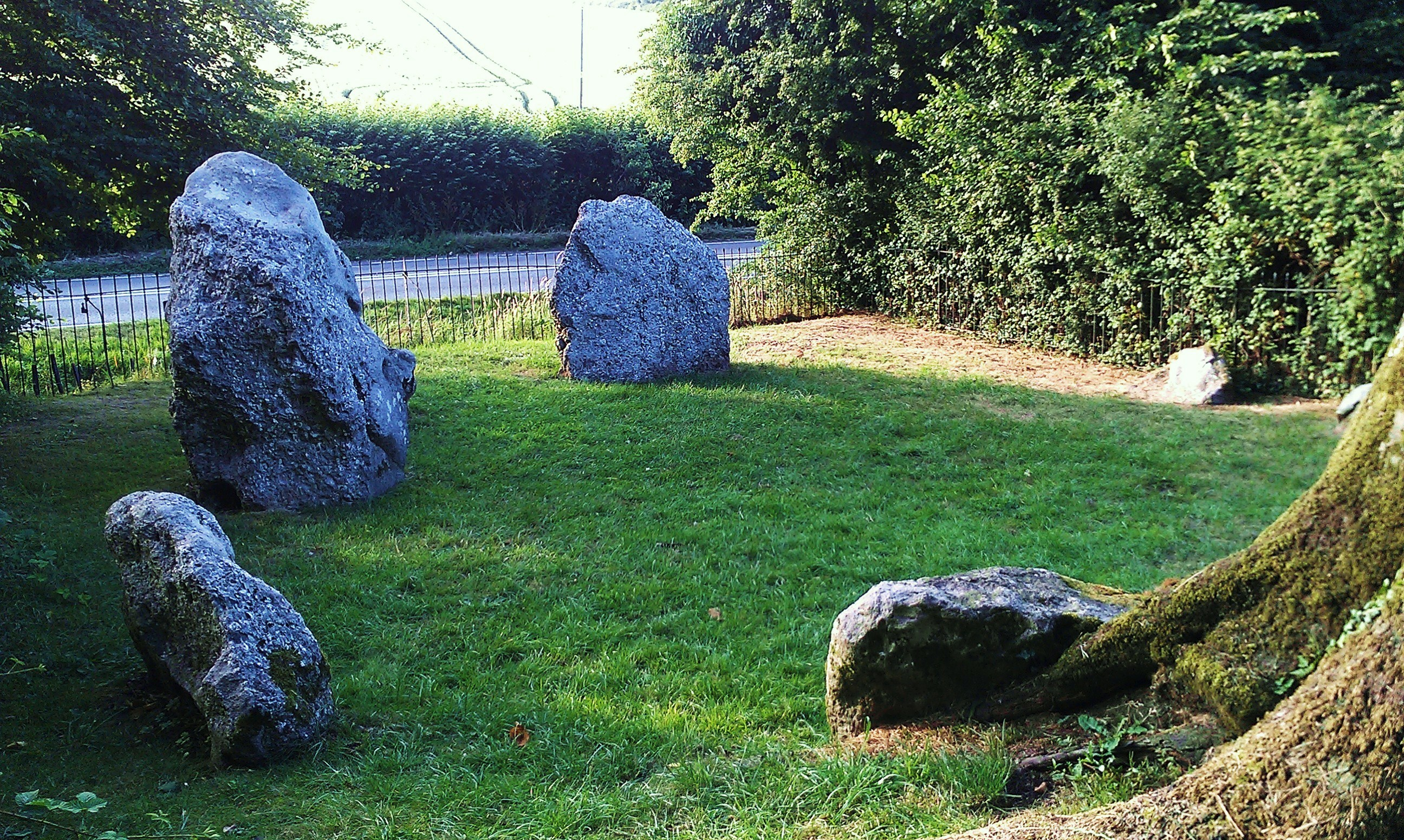 The Nine Stones circle, dating to the late Neolithic, in Winterbourne Abbas, Dorset.